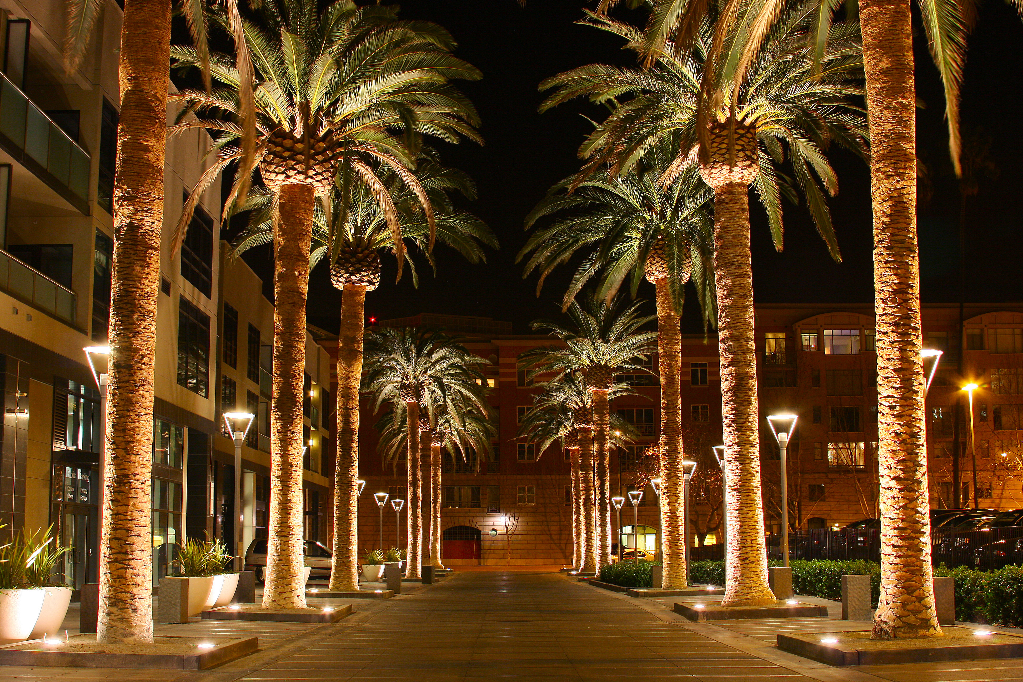 Unidentified Phoenix palms, Palm Row, San Jose, California